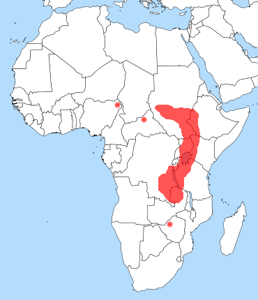 Distribution map of the African shoebill (Balaeniceps rex) range.